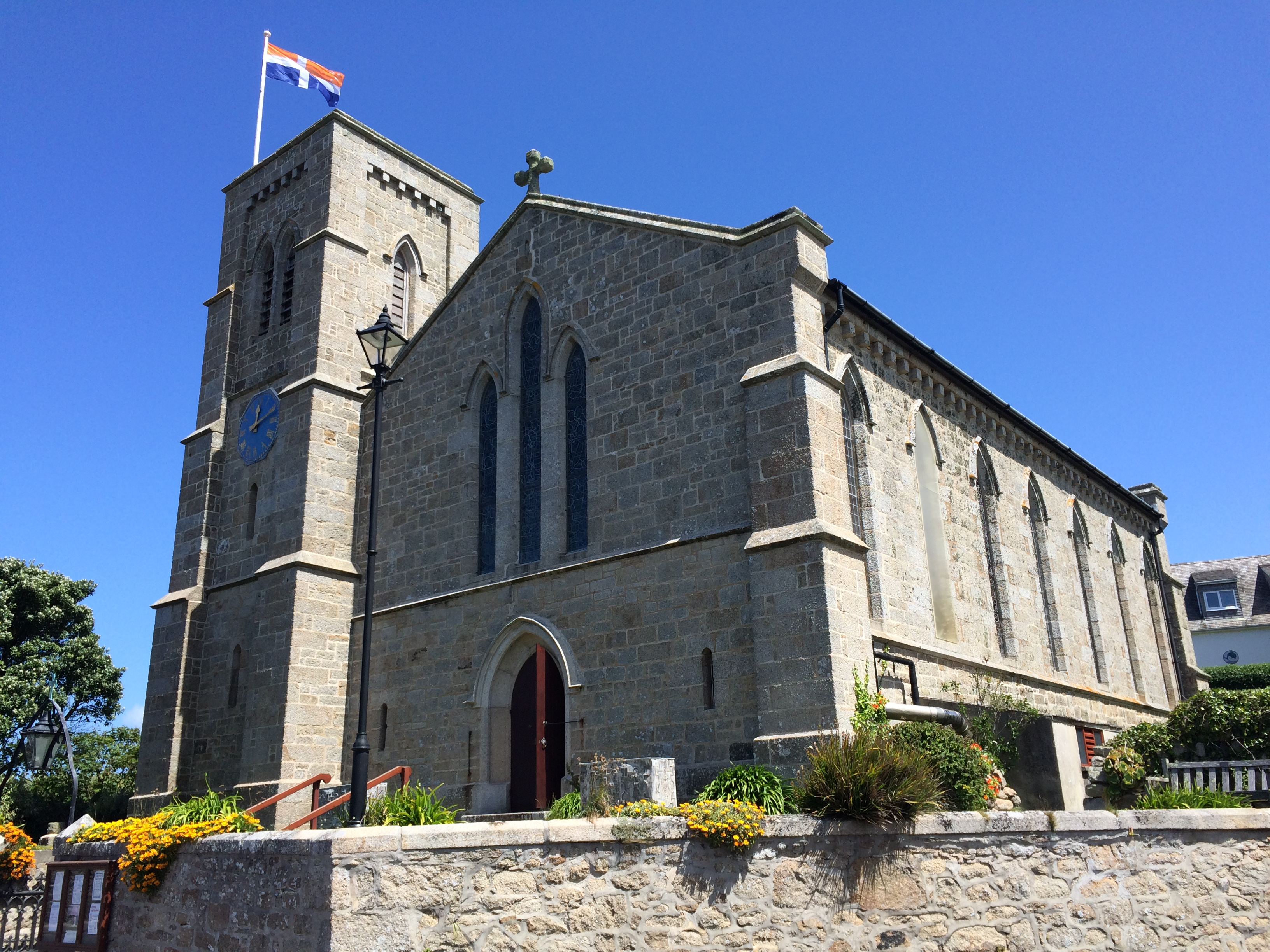 St Mary's Church at Hugh Town, on St Mary's Island, Isles of Scilly, Cornwall, England. The flag is the Scillonian Cross of the Isles of Scilly.